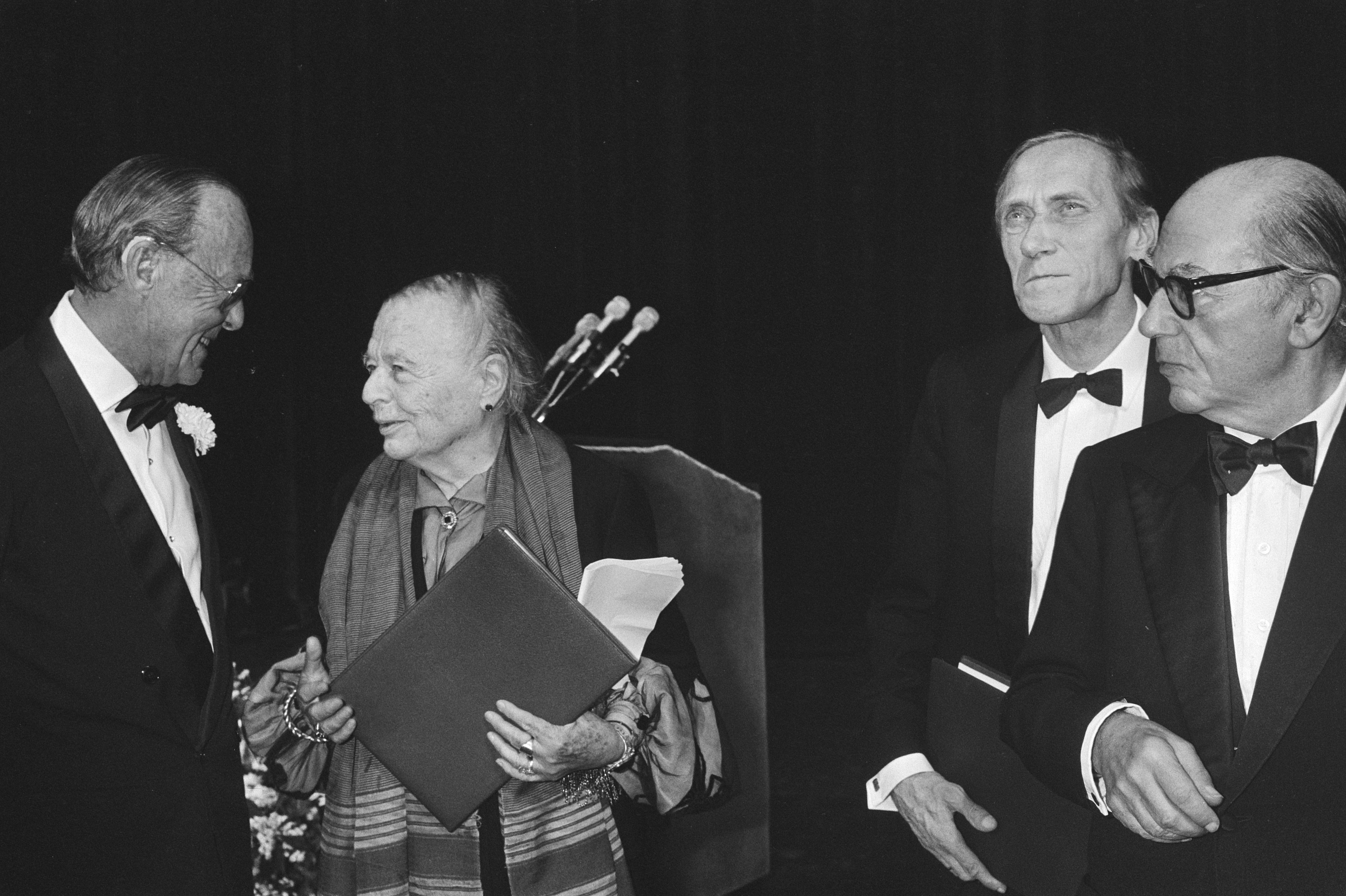 Left to right: Prince Bernhard, Marguérite Yourcenar, Leszek Kolakovski and Isaiah Berlin. Erasmus Prize, Amsterdam, 27 October 1983